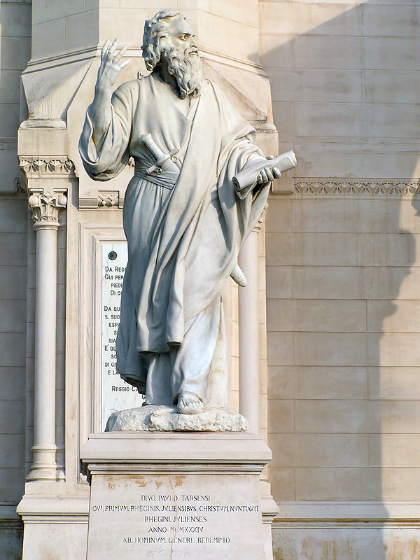 Francesco Jerace, Saint Paul, statue at Reggio Calabria cathedral